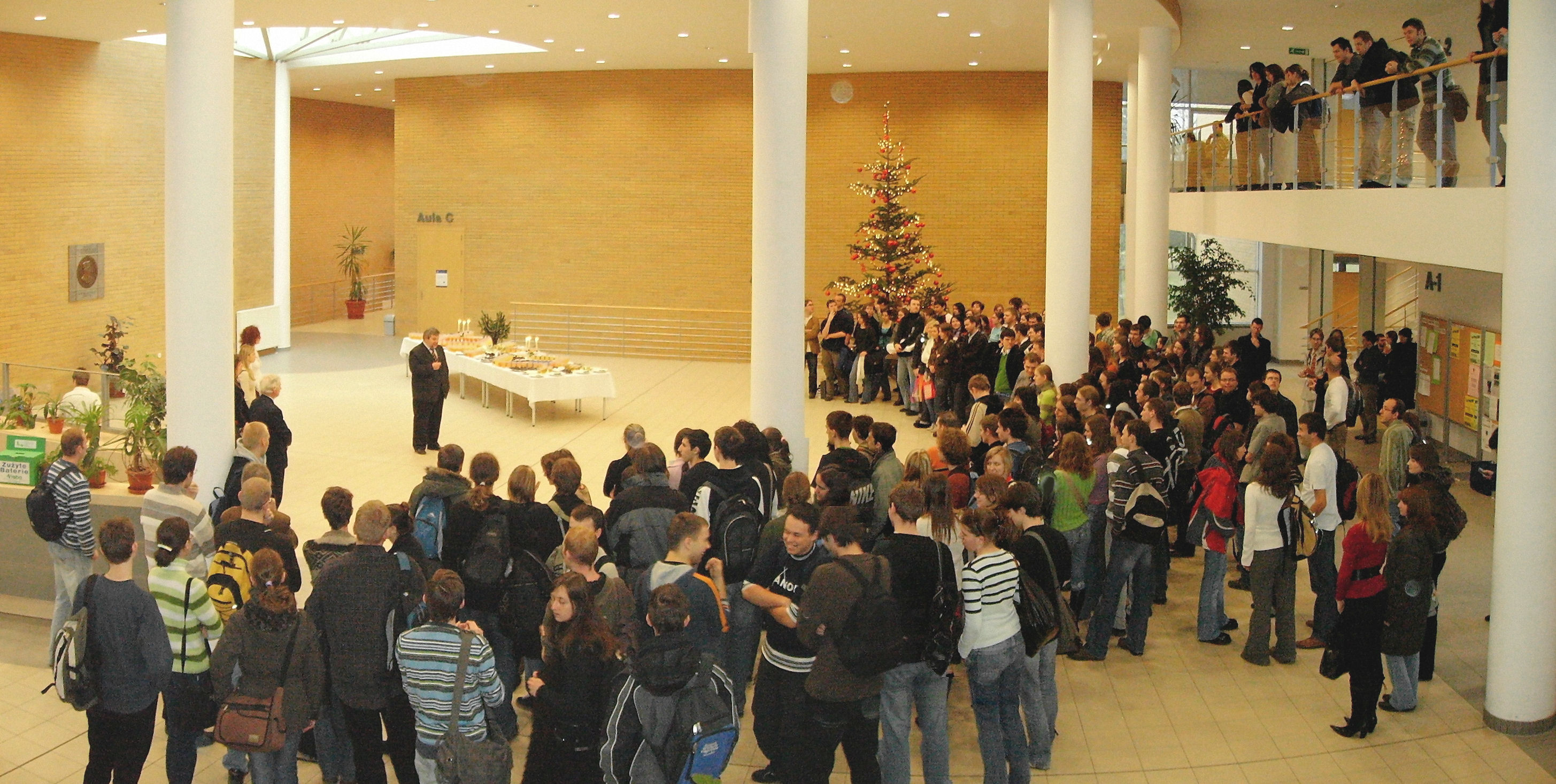 Adam Mickiewicz University in Poznań, Poland